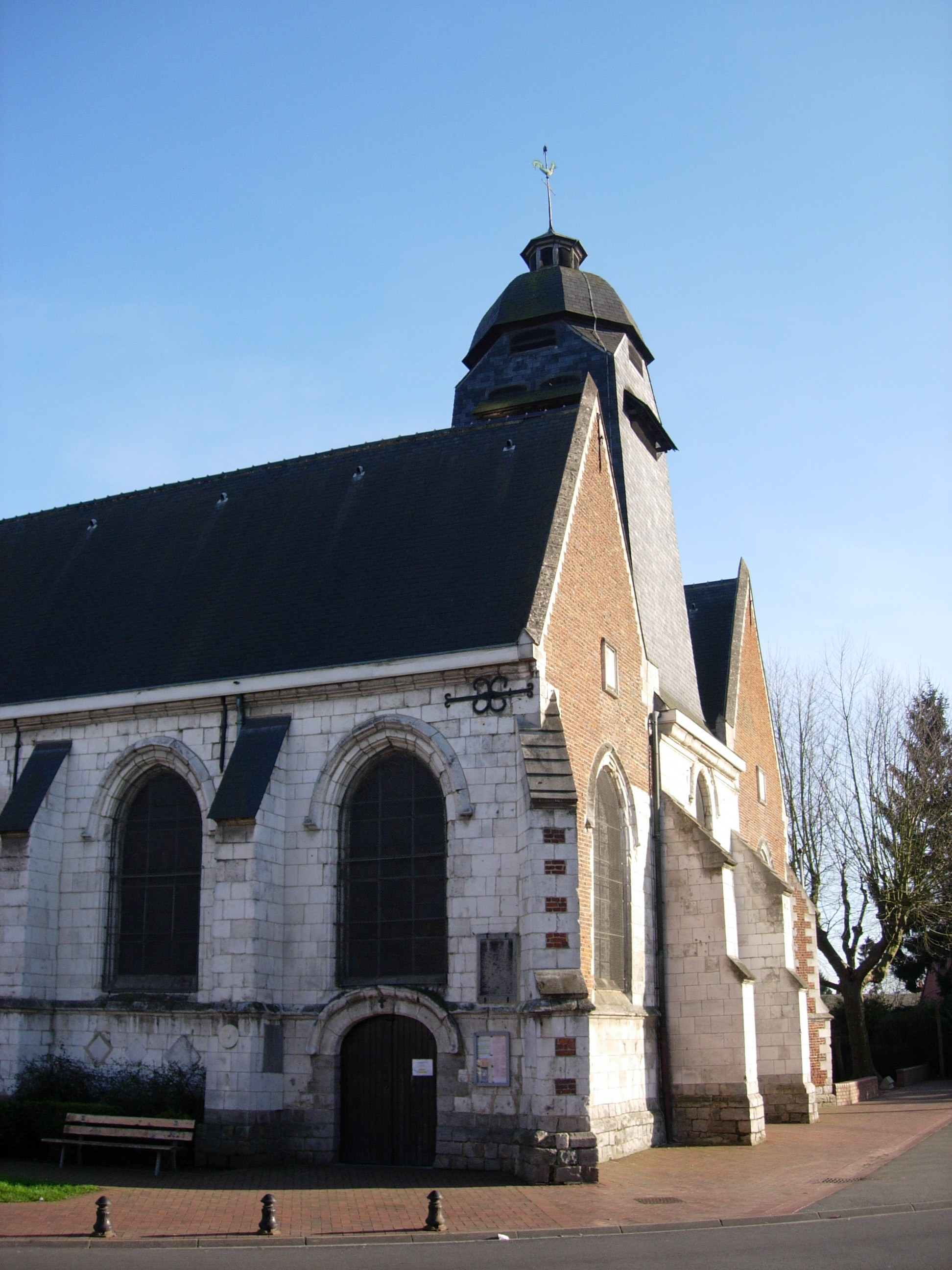 Saint-Laurent Church, side